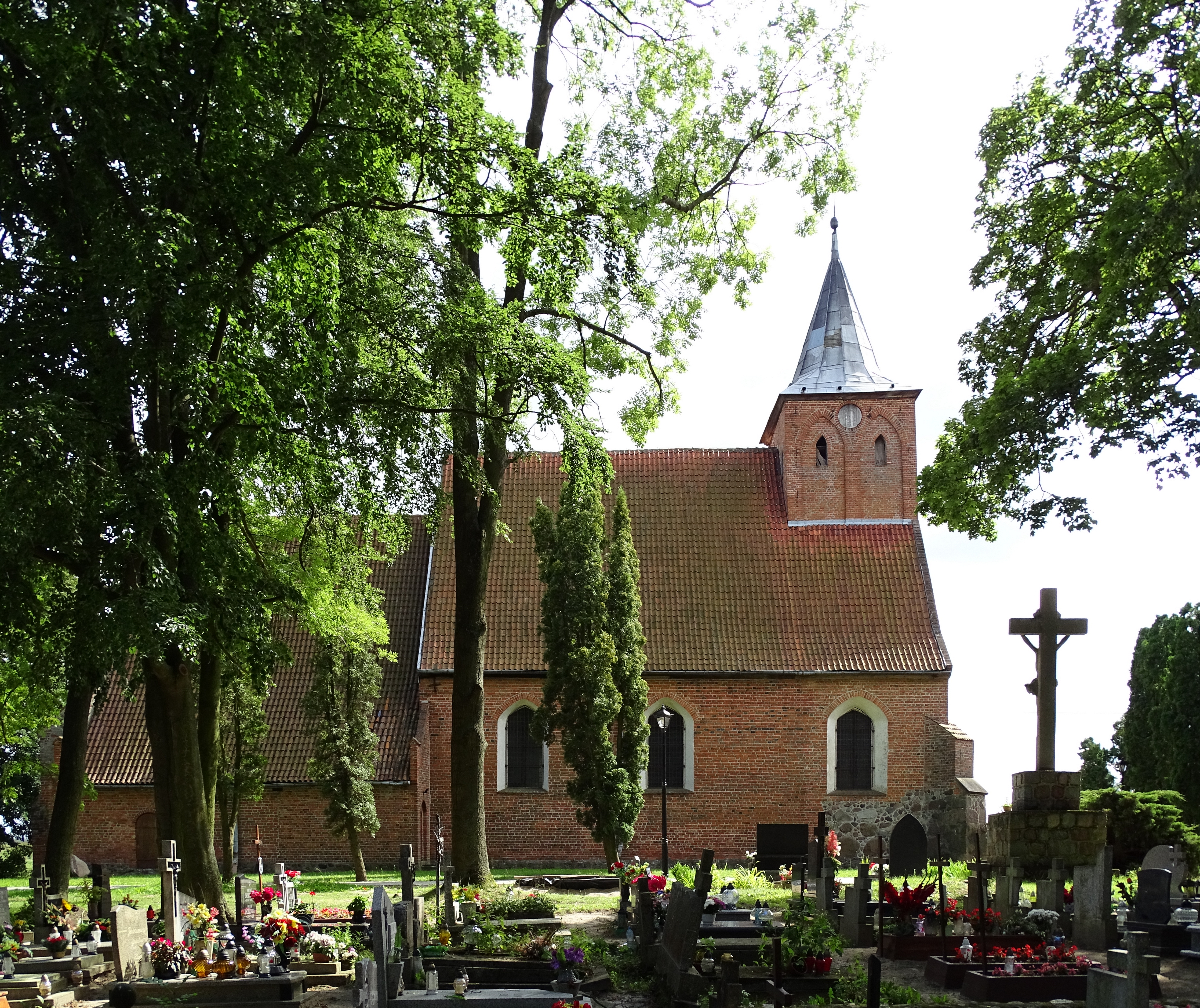 Lubiszewo Tczewskie, Gmina Tczew, Poland. The Holy Trinity church, built about 1348 and rebuilt 1826.